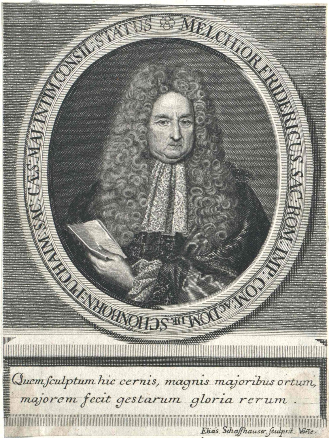 Melchior Friedrich Graf von Schönborn-Buchheim (1644-1717), Kurmainzer Minister